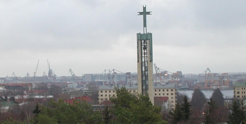 The tower of church of Lauttasaari from the watch tower at Lauttasaari Hill in Helsinki, Finland. The city of Helsinki and The Sea Port are behind of the church.